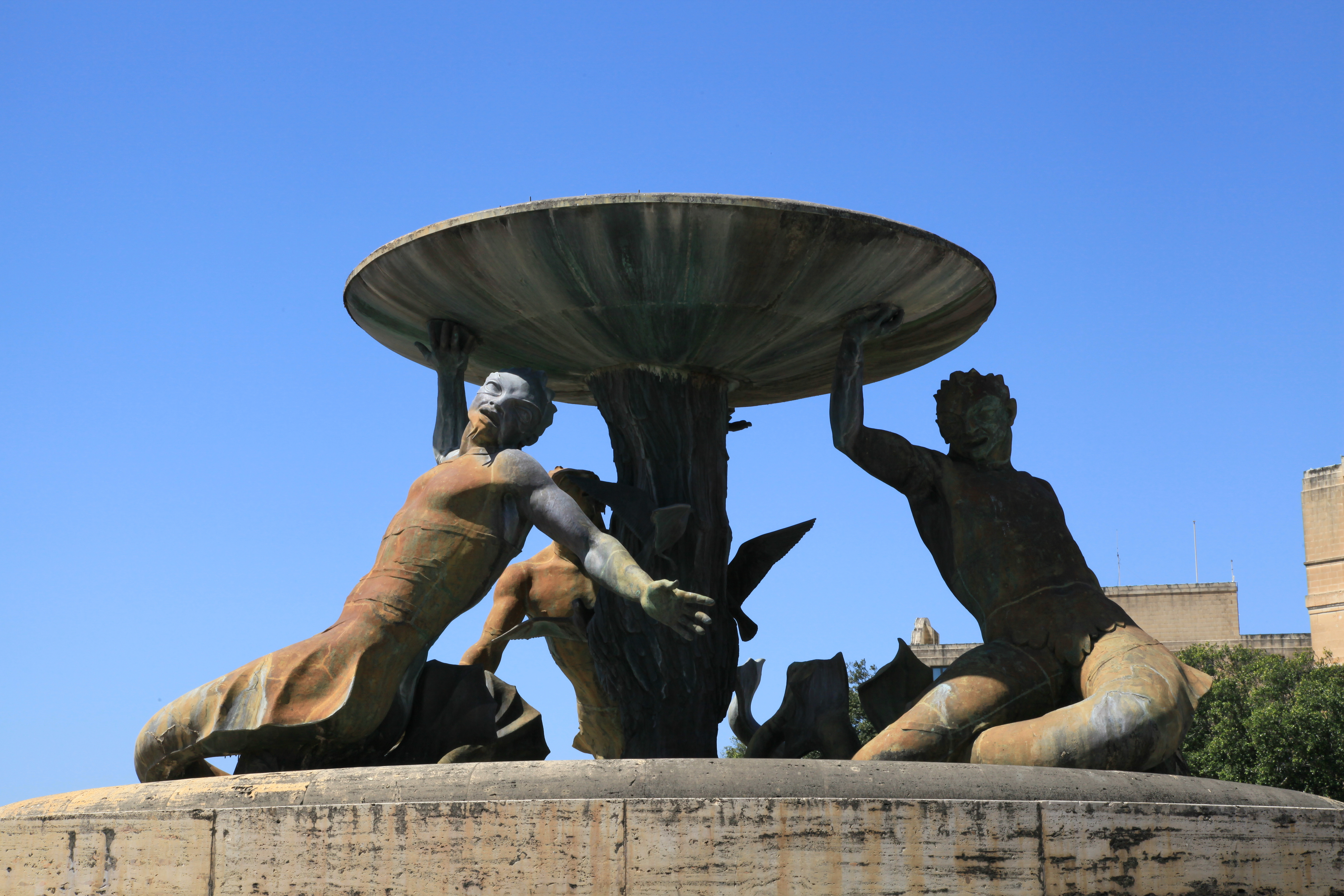 Triton Fountain at Vjal Nelson in Valletta, Malta